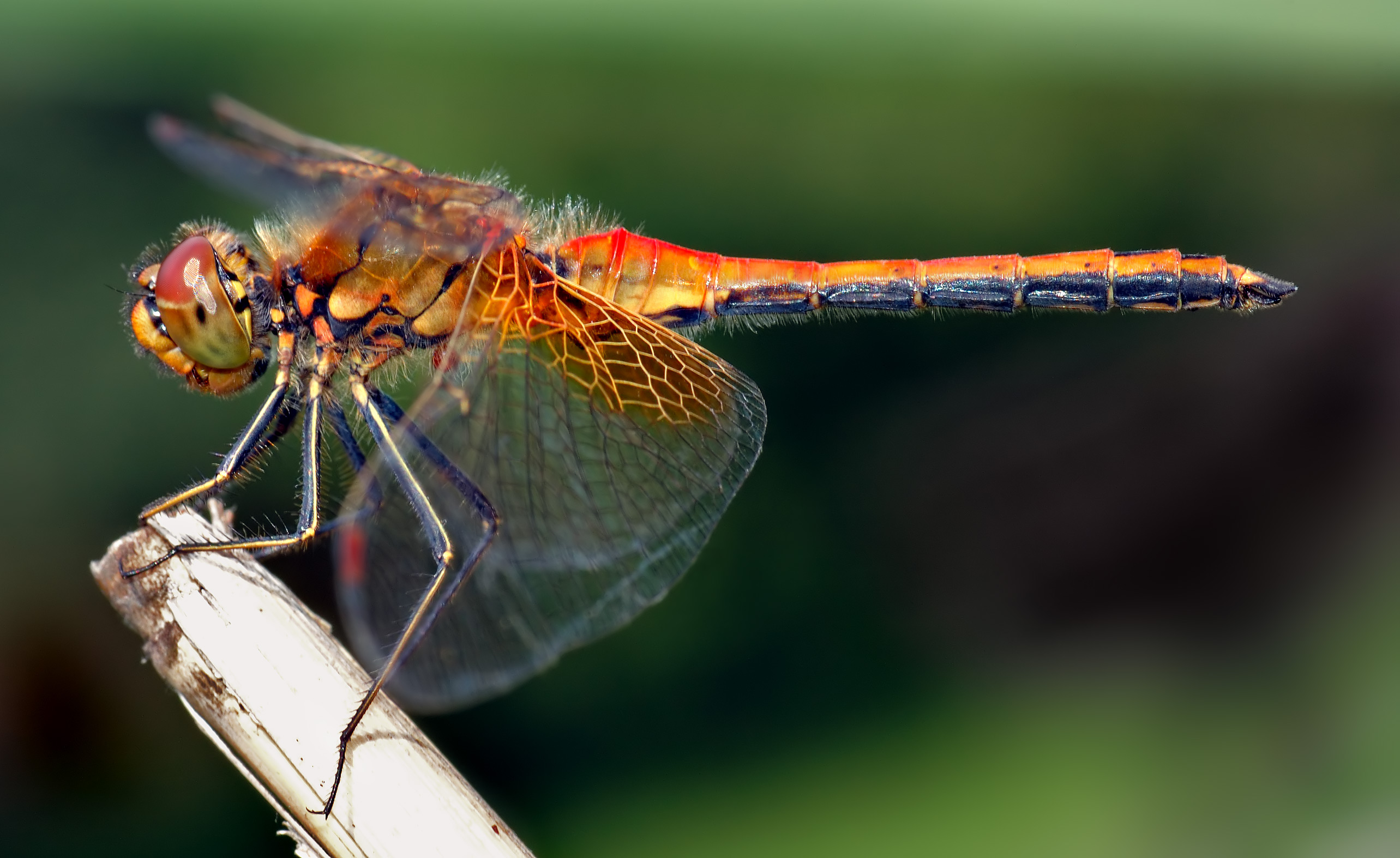 This image shows an about 1.6 inch (4 cm) large male Yellow-winged Darter (Sympetrum flaveolum) from the side.